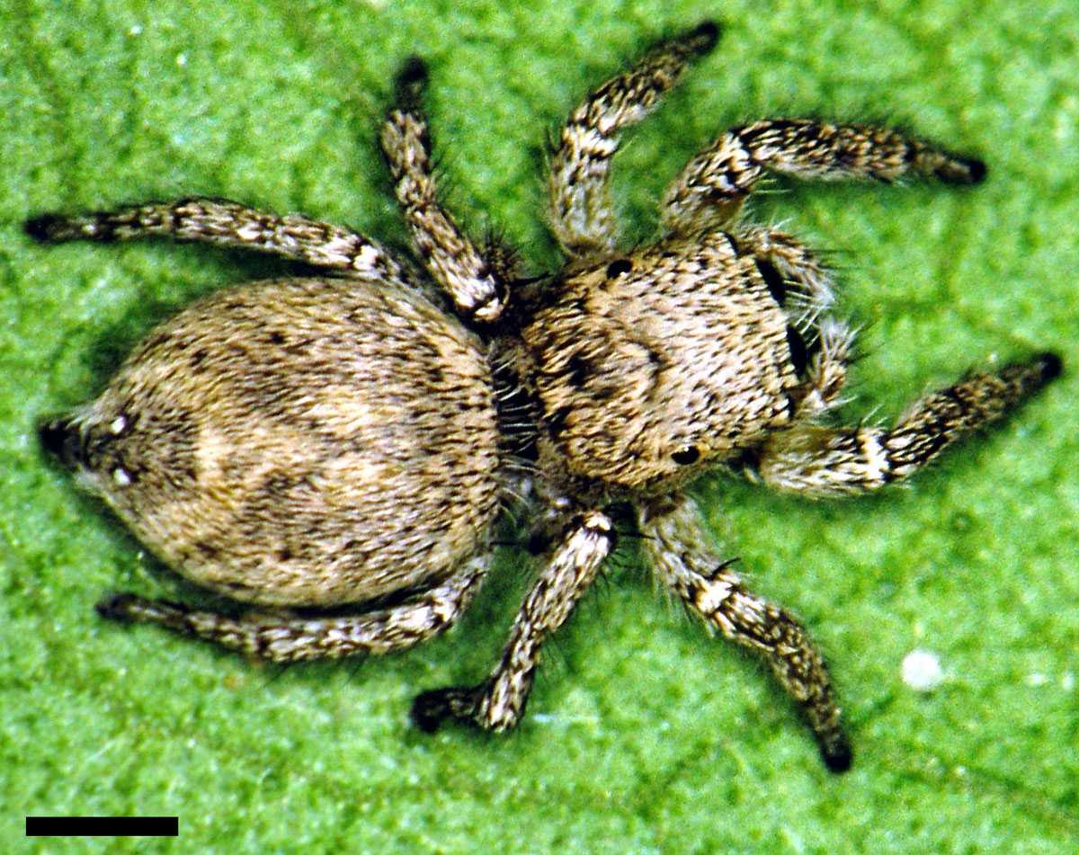 Female Habronattus calcaratus jumping spider from Ocala National Forest, Florida, USA